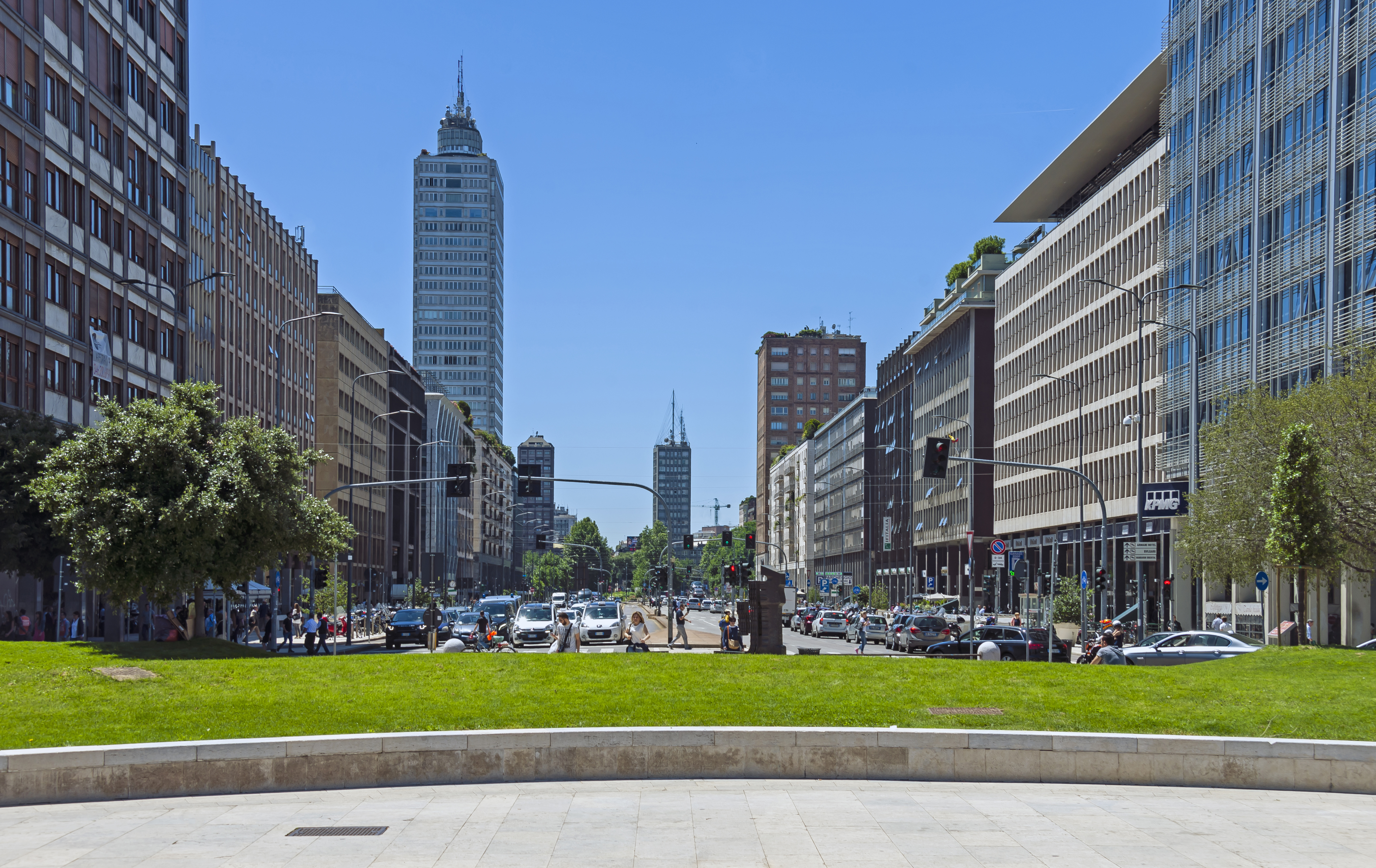 Looking south down Via Vittor Pisani from Piazza Duca d'Aosta, Milan